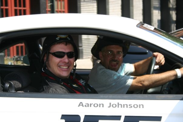 Rally One 2009 Classic Team Danger